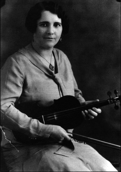 Mary Travers Bolduc